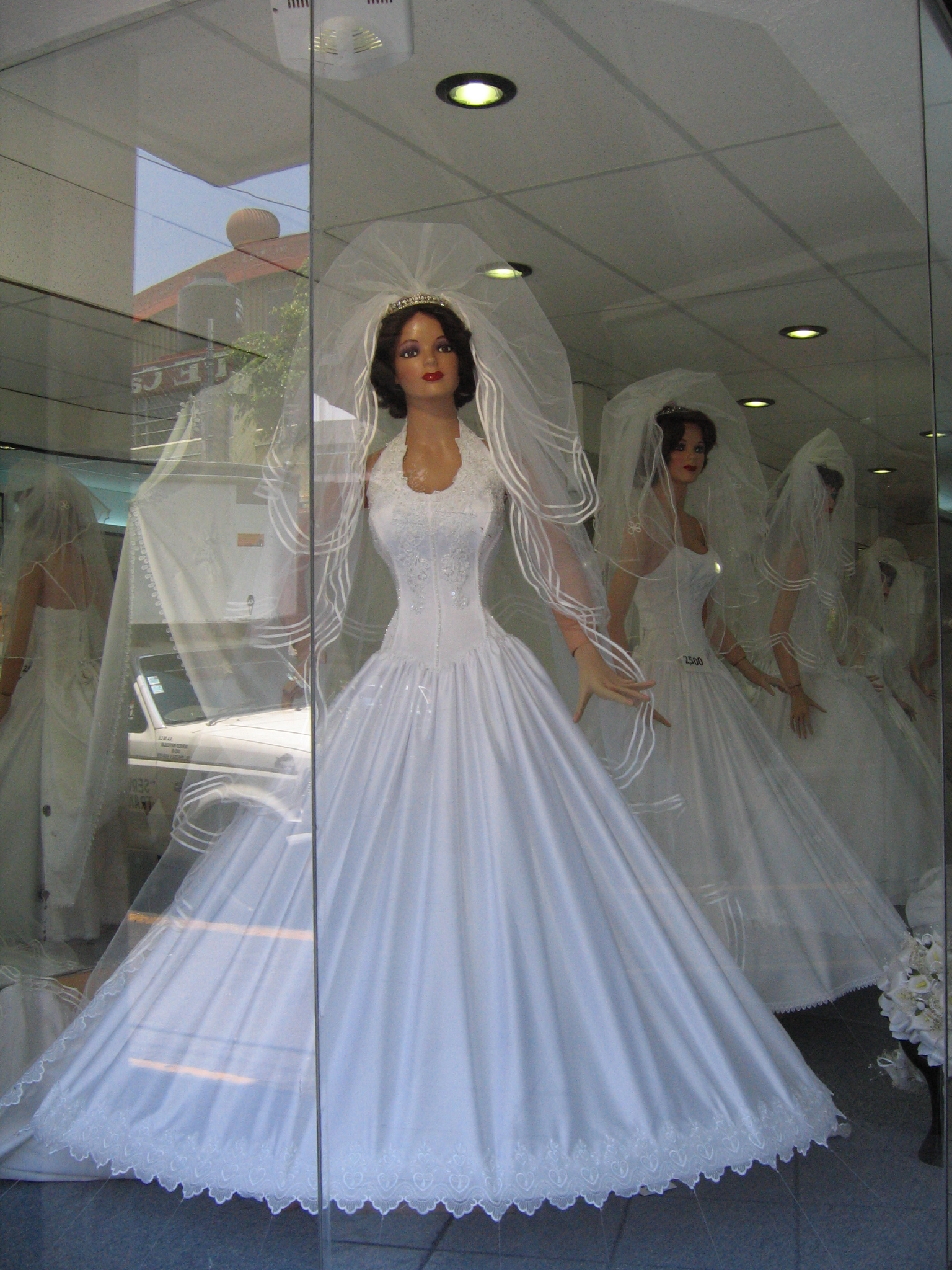 Tepito Market, Mexico City, photo by Louise Ranck, (This is not Tepito Market, it is "Lagunilla" Market area. (close but not the same)